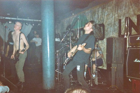 Godflesh live at Camden Underworld, 10 October 1991. User:CelestialWeevil found me via Home of Metal, contacted me, and guided me through this process.